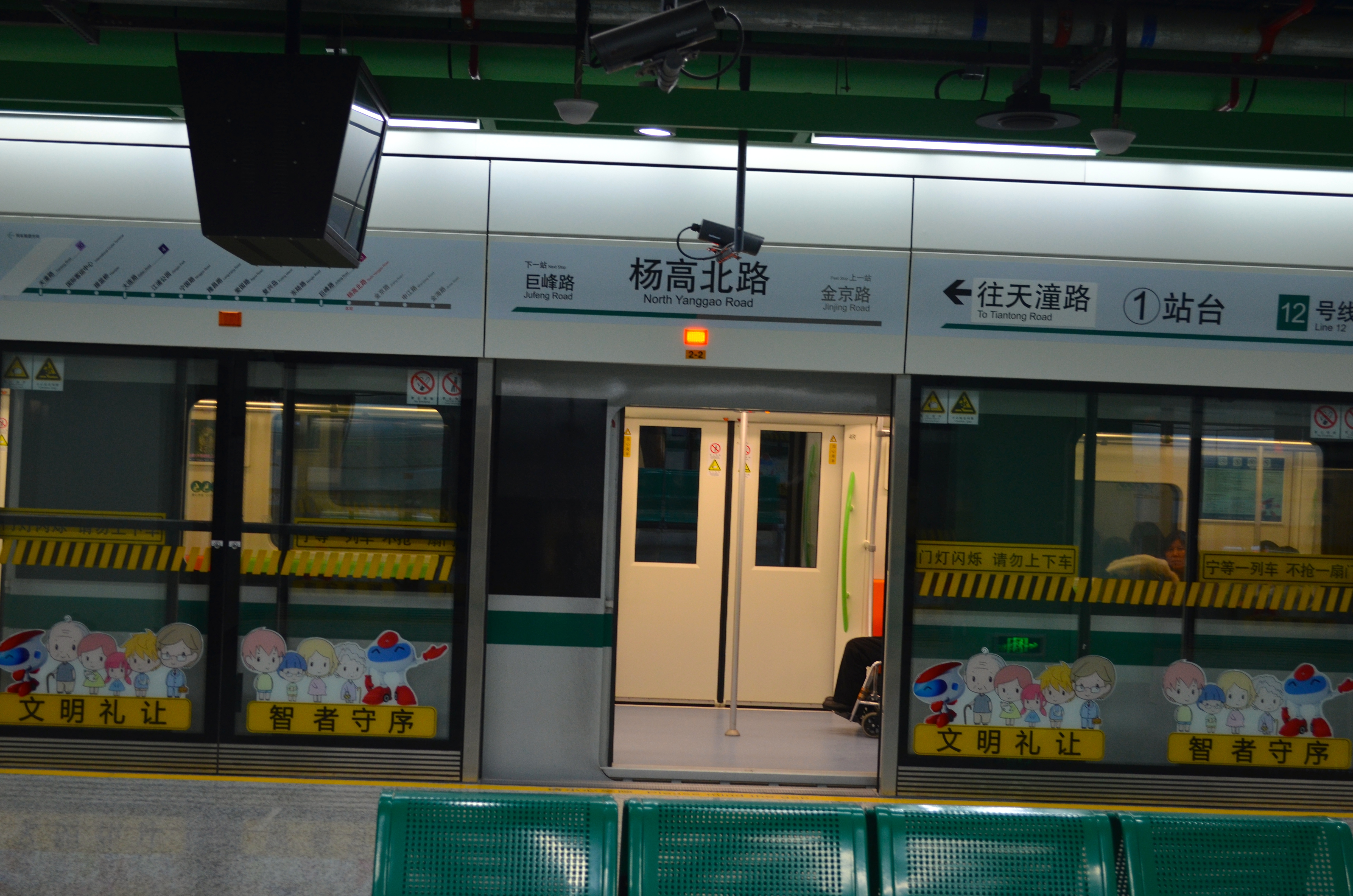 Platform of North Yanggao Road Metro Station - Line 12, Shanghai中文（中国大陆）: 上海轨道交通12号线杨高北路站站台